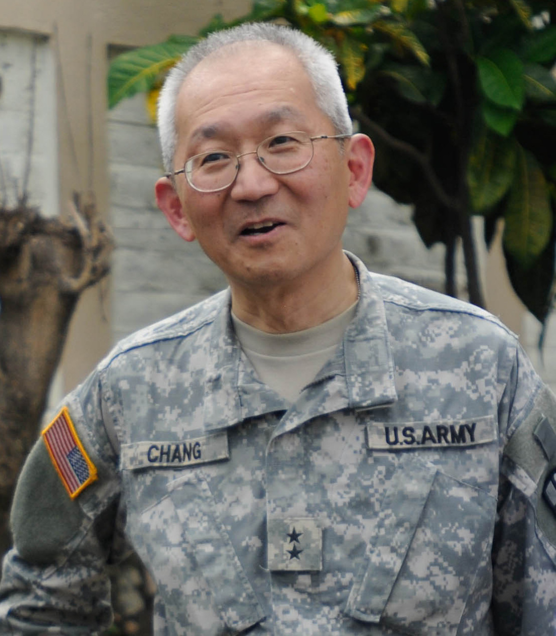 Maj. Gen. Lie-Ping Chang, Commander, 807th Medical Command (Deployment Support)